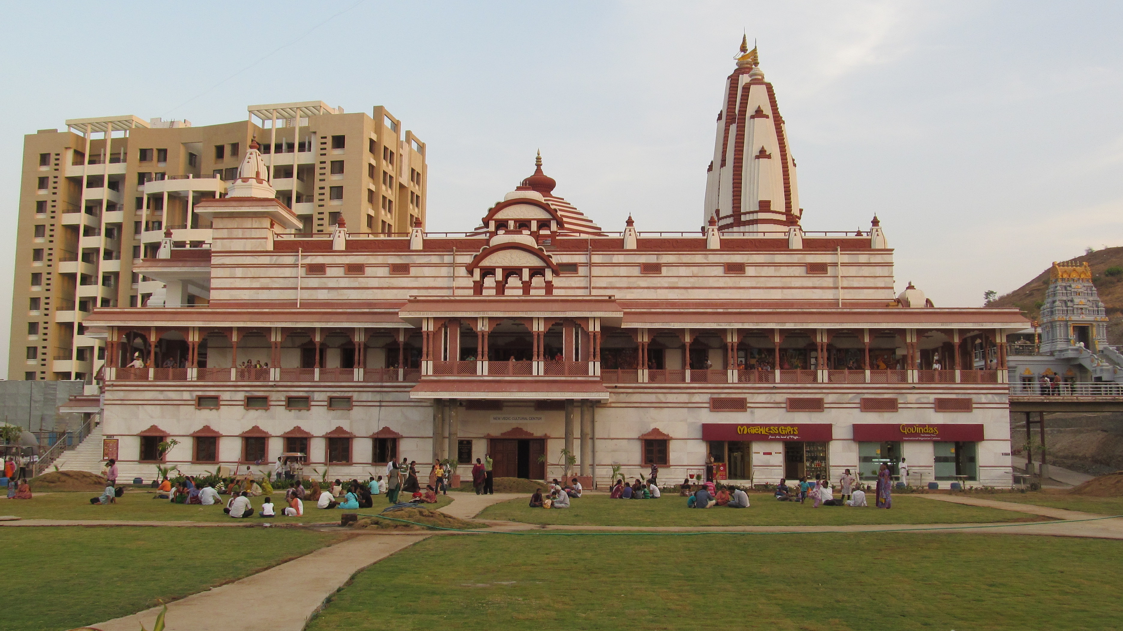 ISKON NVCC